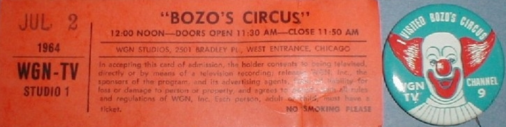 Unused ticket and "visit" pin for Bozo's Circus broadcast of 2 July 1964. Copyright details The ticket came with an "I Visited Bozo's Circus" pin attached; the marks where the pin was attached to it can be seen on the image. The ticket has no copyright marks as can be seen on the front and back of the image. The pin has no visible copyright information. The ticket can be dated by the date it was valid for the television show. Both the ticket and the pin were issued by WGN-TV as promotional items for the show and for the station. Tickets for radio and television shows are given for the asking by networks and broadcasting stations. In the case of the Bozo Show, there was once an 8-10 year wait for the tickets issued to be valid for a broadcast date. From Cornell University: Cornell University The Cornell information indicates this image is in the public domain: "For works first registered or publisher in the US: "1923 through 1977 "Published without a copyright notice "None. In the public domain due to failure to comply with required formalities." There is no evidence any copyrights are claimed on either of these items.